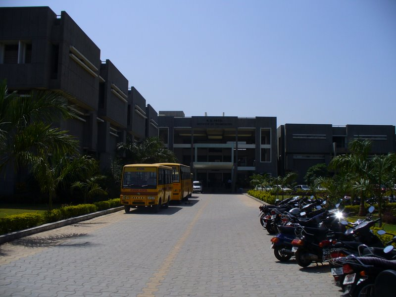 A. D. Patel Institute of Technology, New Vallabh Vidyanagar, Anand, Gujarat, India